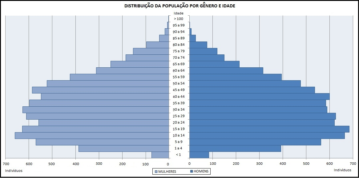 This is the distribution by age and gender of Passa Quatro's population. Passa Quatro is a city of Minas Gerais, a brazilian state. Source: IBGE